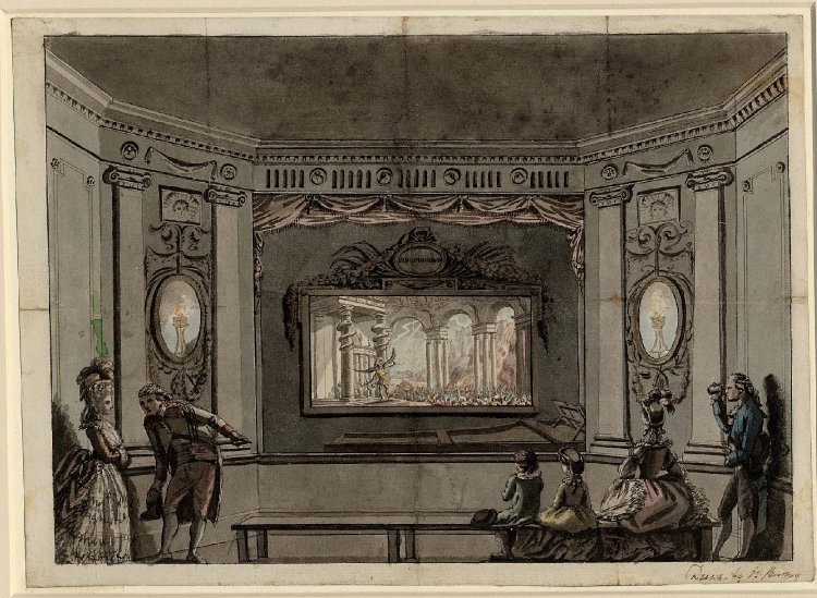 A view of Philip James de Loutherbourg's Eidophusikon